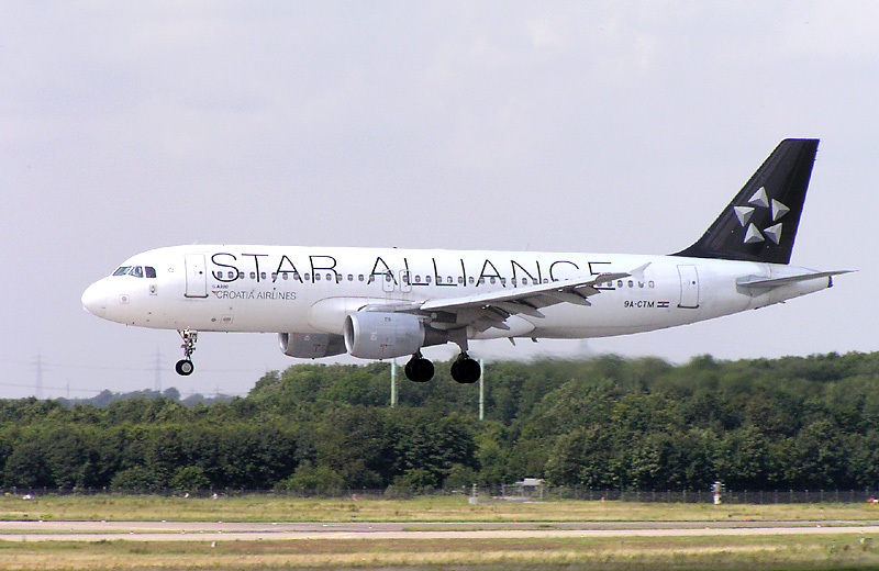 Croatia Airlines Airbus A320-200 (9A-CTM) in Star Alliance colours in Düsseldorf (EDDL)